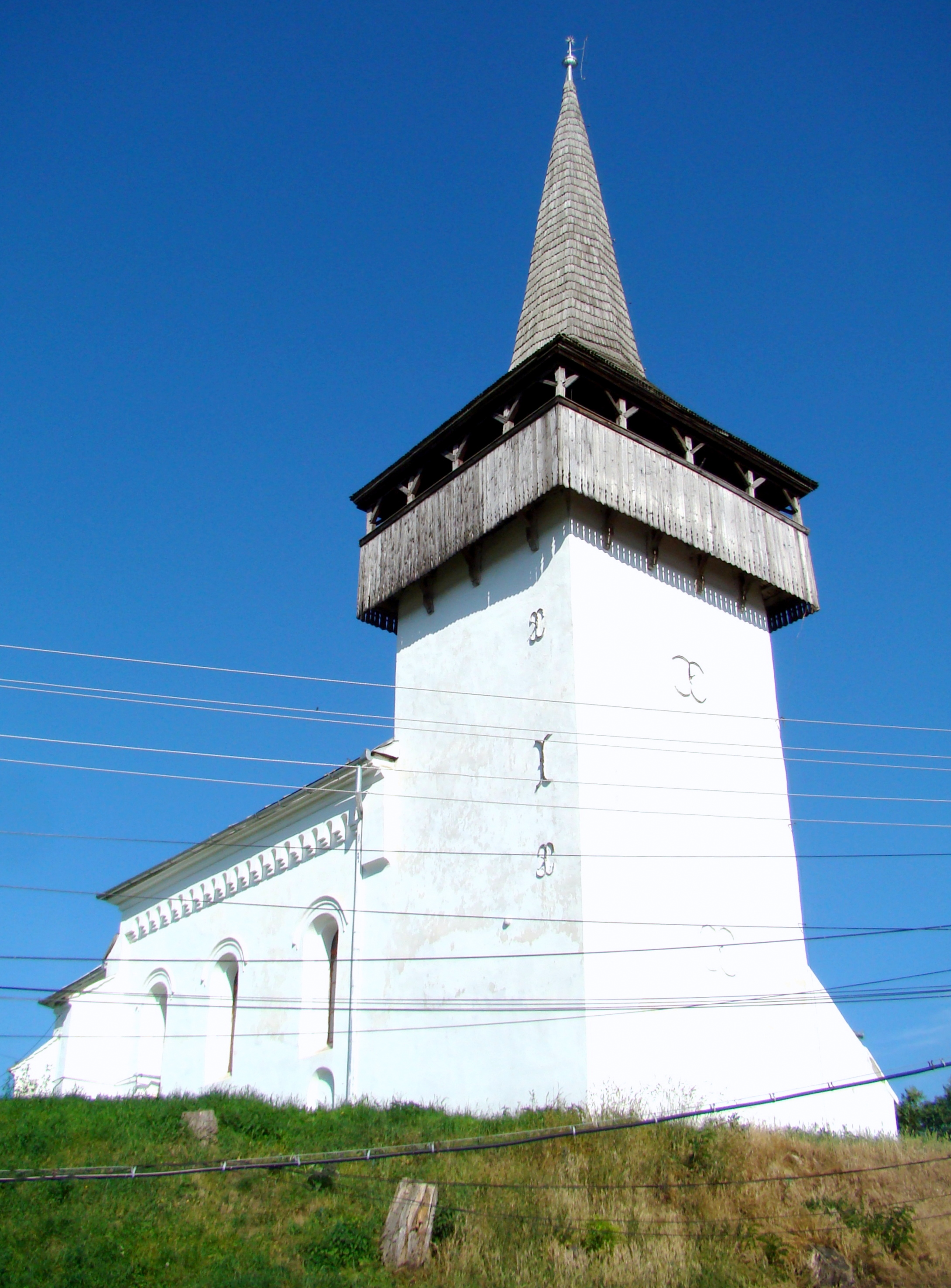 Reformed church in Bucerdea Grânoasă, Alba county, Romania